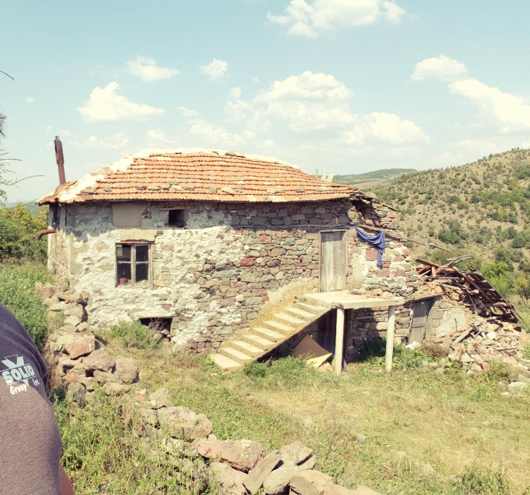 Birthplace of Naim Süleymanoğlu in Ptichar village, Momchilgrad Municipality, Kardzhali Province, Bulgaria